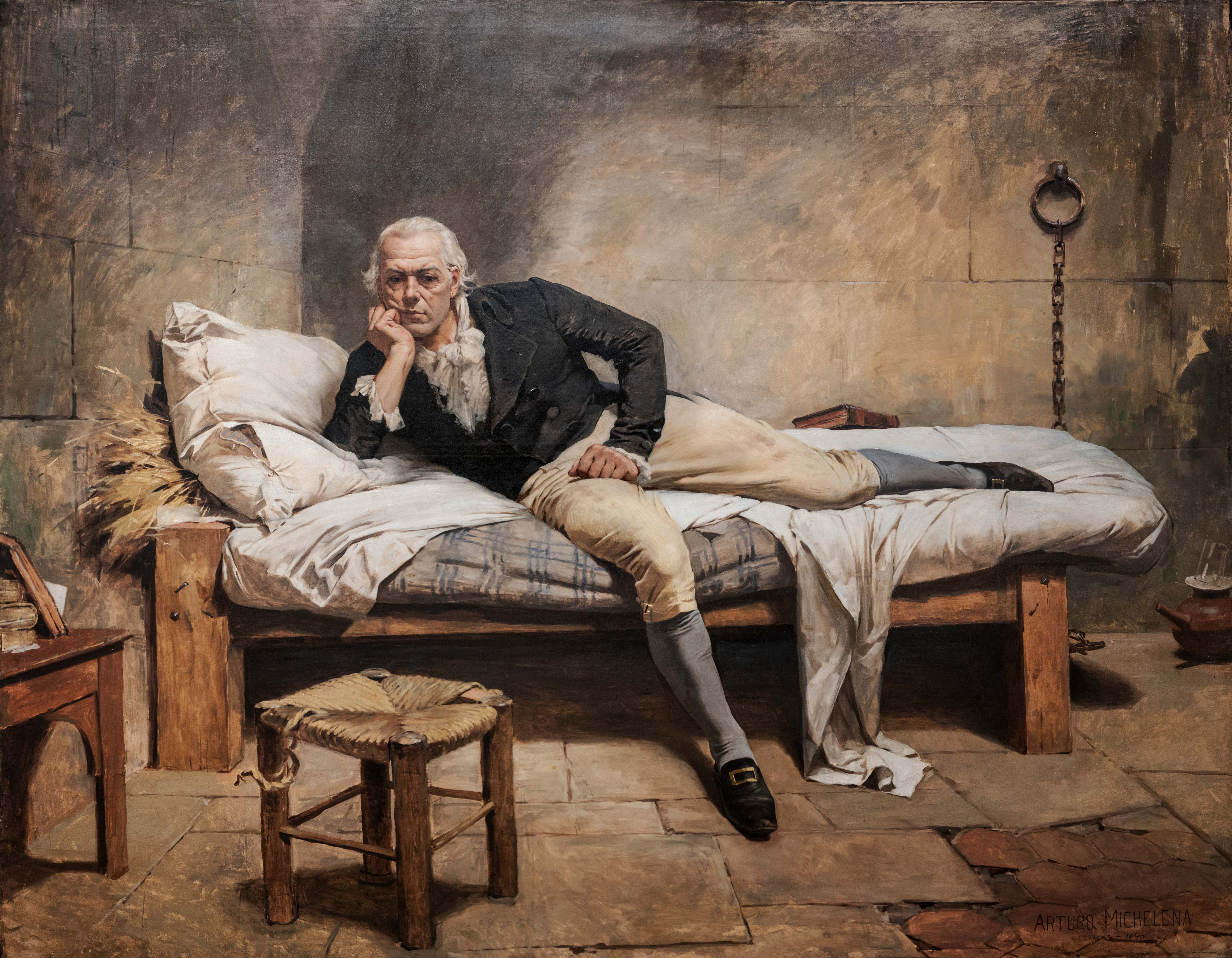 Miranda en La Carraca, Arturo Michelena's depiction of Miranda's last days, imprisoned in Cádiz, Spain. Galería de Arte Nacional, Caracas, Venezuela.)